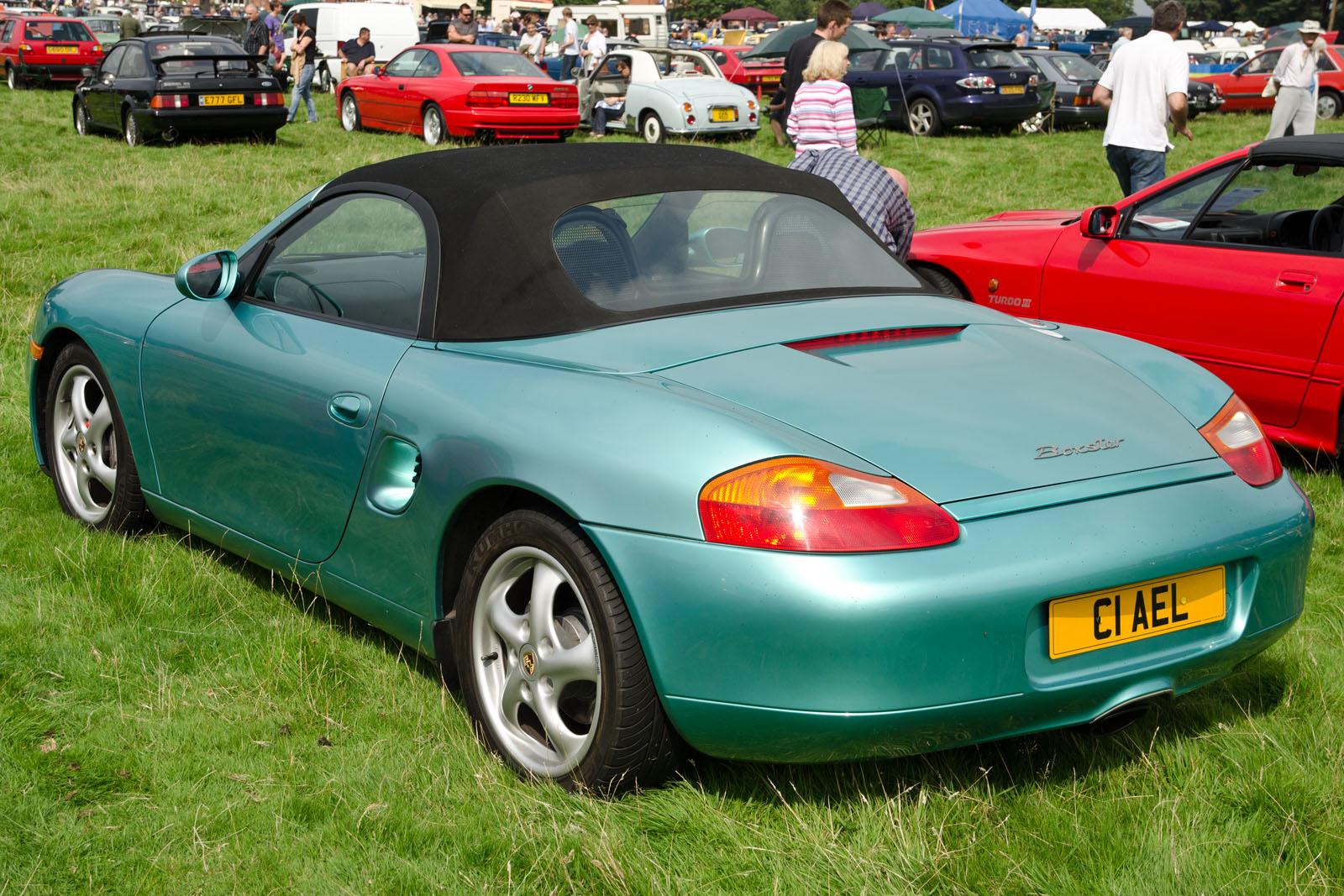 Capesthorne Hall Classic Car Show 25/08/2013